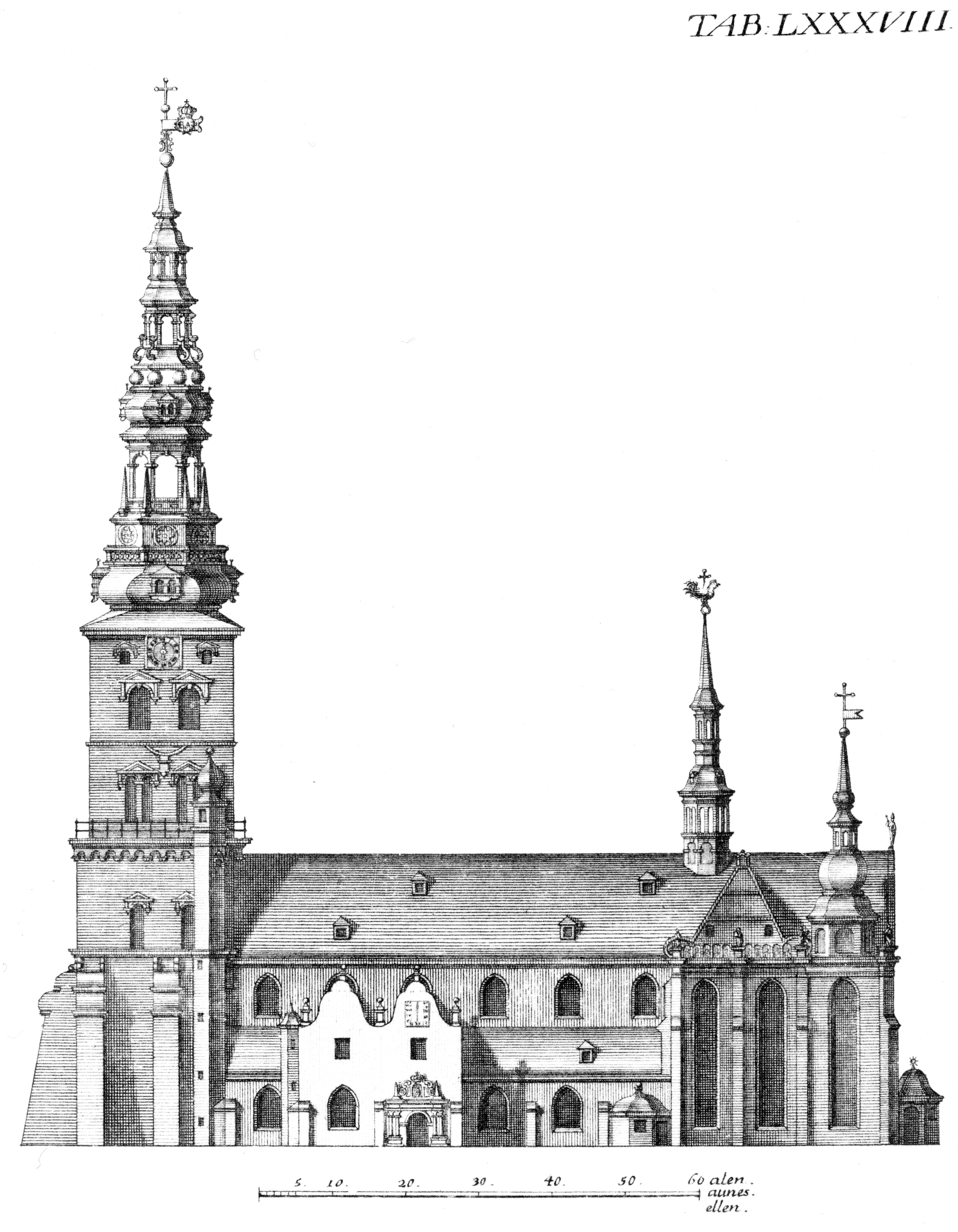 From Hafnia Hodierna by Laurids de Thurah, 1748. Drawings of buildings in Copenhagen. Tab.LXXXVIII. Sankt Nikolaj Kirke.